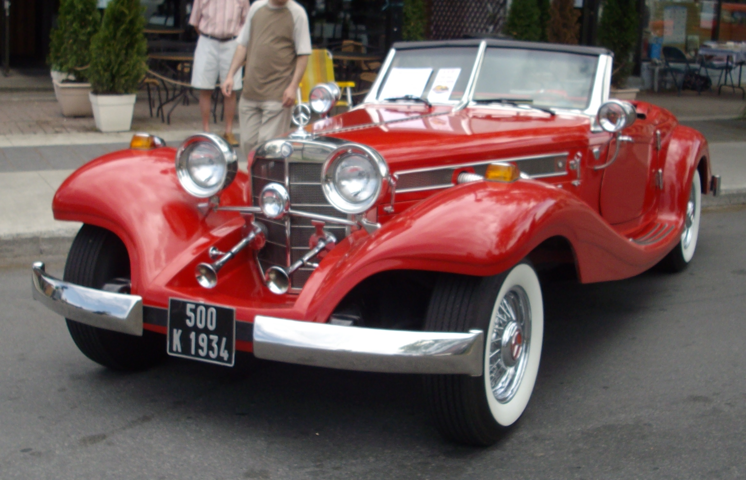 1934 Mercedes-Benz 500K replica photographed in Montréal, Quebec, Canada at Destination Décarie 2012.